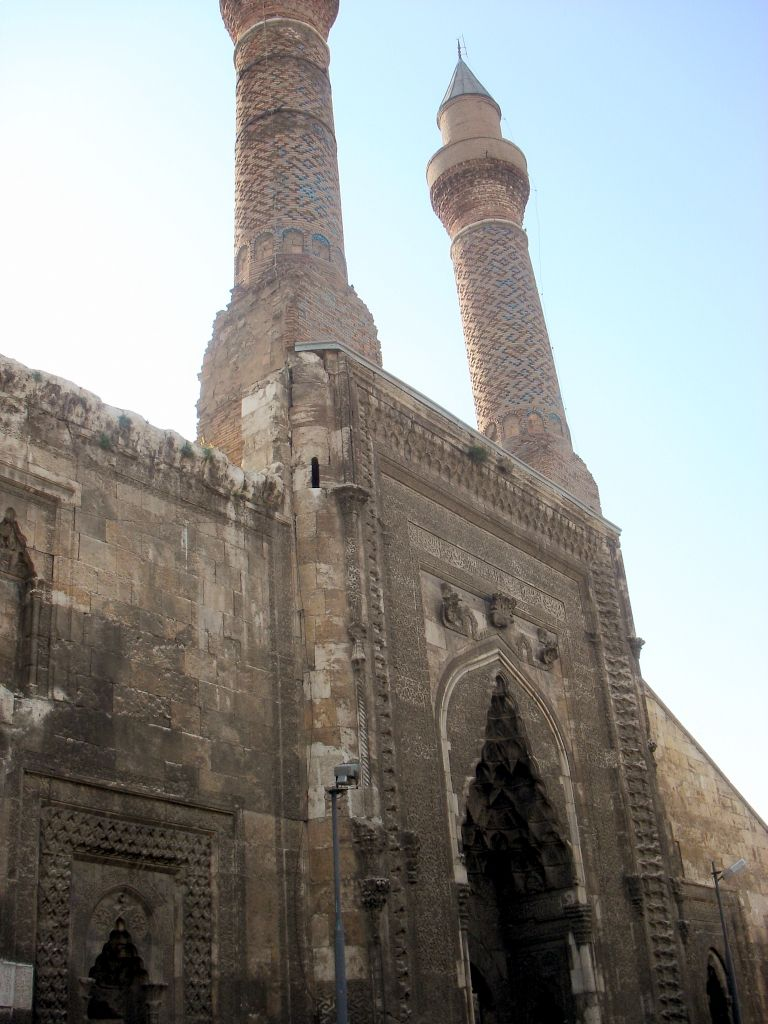 Çifte Minareli Medrese in Sivas, Turkey